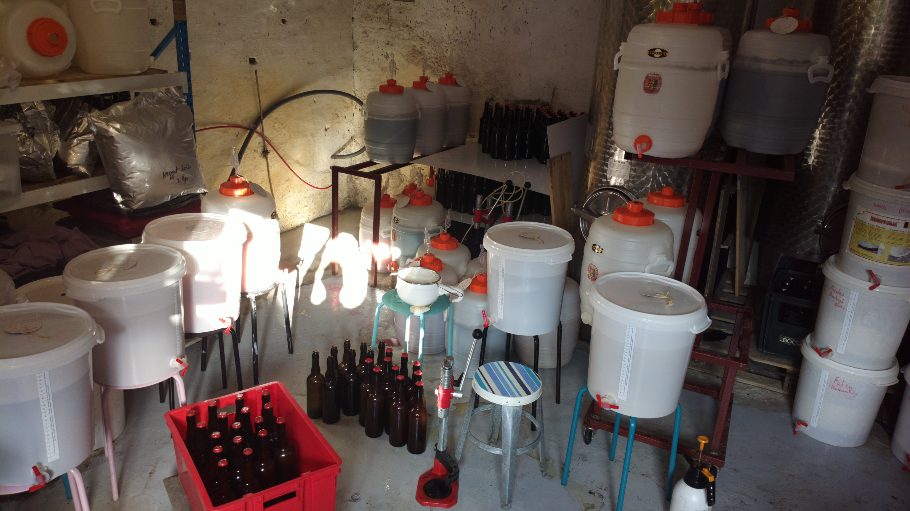 Microbrewery's Zymotik based Montreuil, Seine-Saint-Denis, France